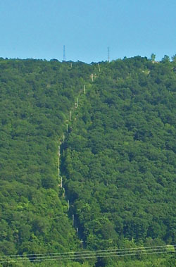 Photographed by Daniel Case 2006-08-05 from the Beacon Elks lodge parking lot.